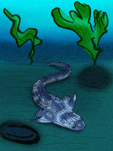 Reconstruction of the basal petalichthyid placoderm Diandongpetalichthys baojiaoshanensis from Early Devonian China